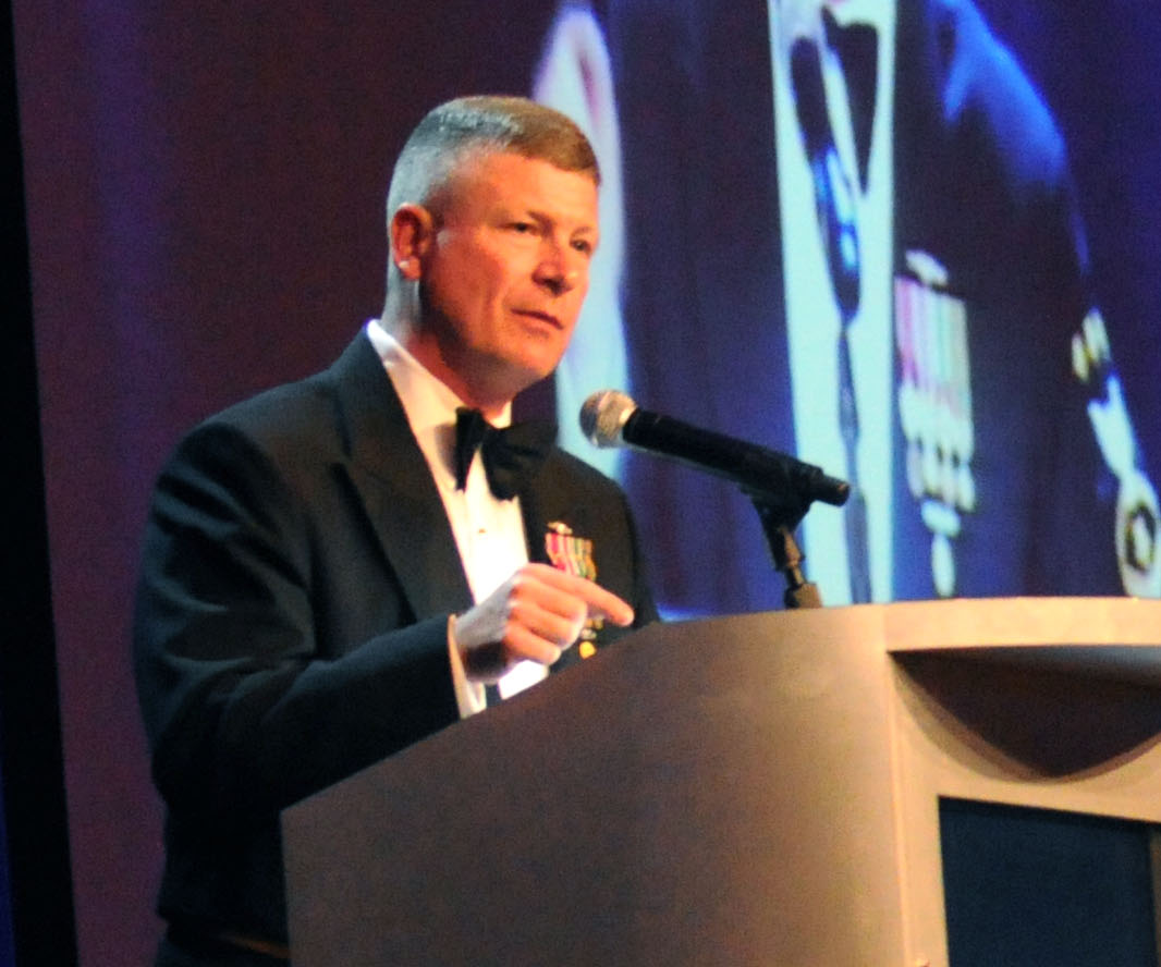 GROTON, Conn. (April 10, 2010) Master Chief Petty Officer of the Navy (MCPON) Rick West delivers remarks at the 110th Submarine Birthday Ball at the MGM Grand. The ball celebrated the 50th anniversary of the submerged circumnavigation of the world by the nuclear-powered radar picket submarine USS Triton (SSRN 586) in 1960. (U.S. Navy photo by Mass Communication Specialist 1st Class Jennifer A. Villalovos/Released)